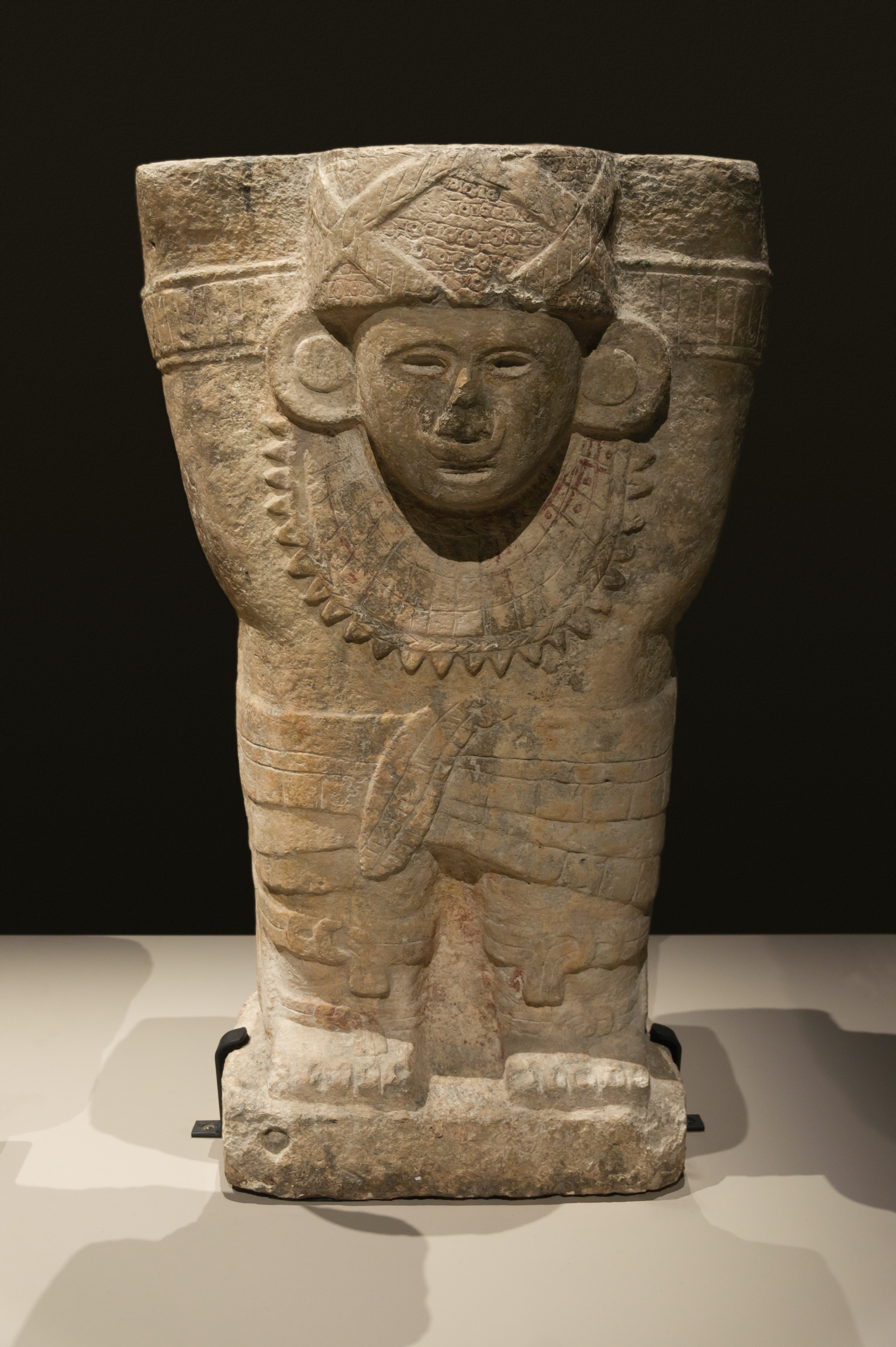 A Maya atlante of Chichén Itza, limestone, ancient post-classic era (900 - 1250 CE), Museo Nacional de Antropologia, Mexico state, Mexico city.